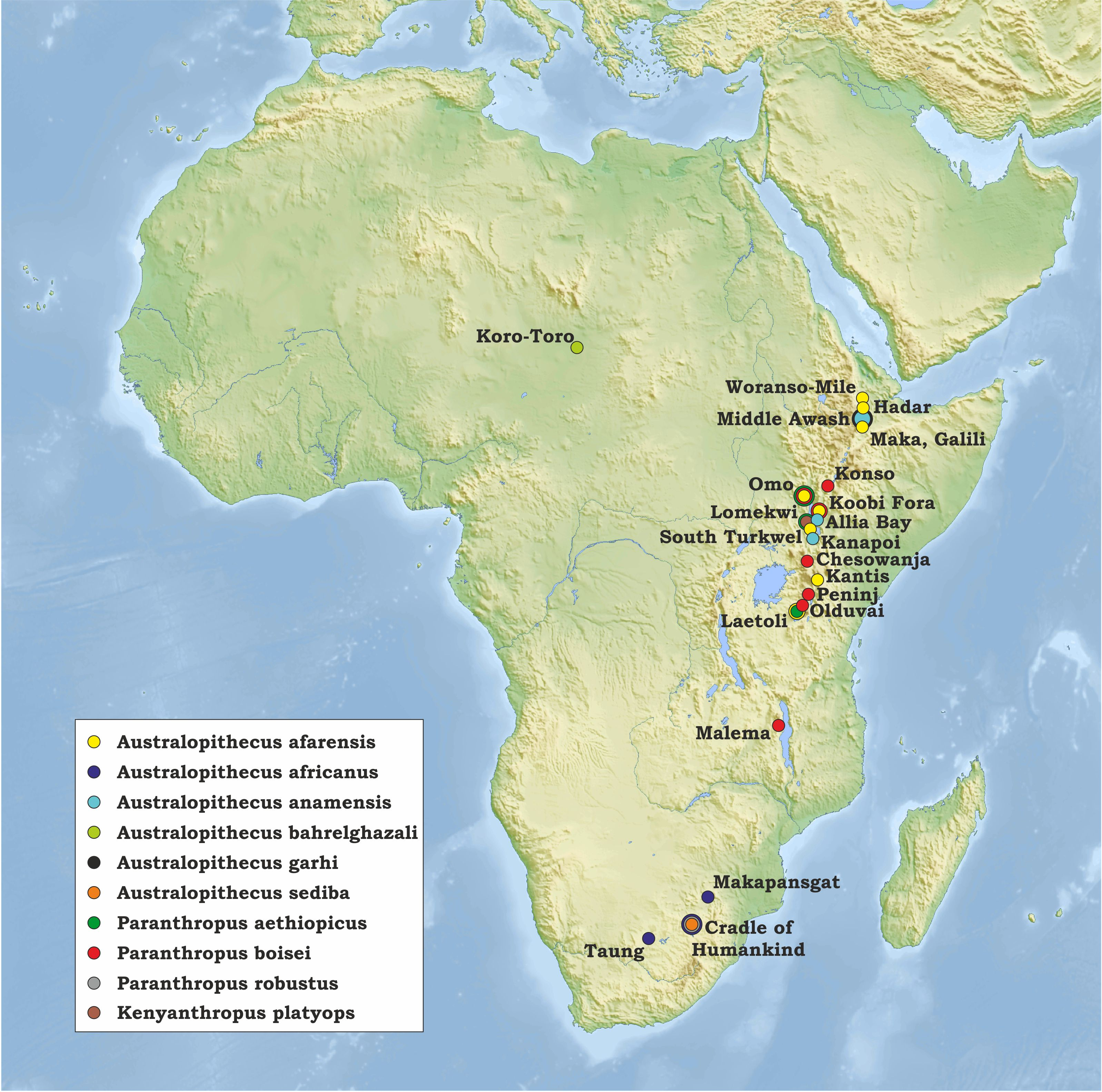 Ausralopithecus (Paranthropus) paleoanthropological sites in South Africa, Malawi, Tanzania, Kenya, Ethiopia and Chad